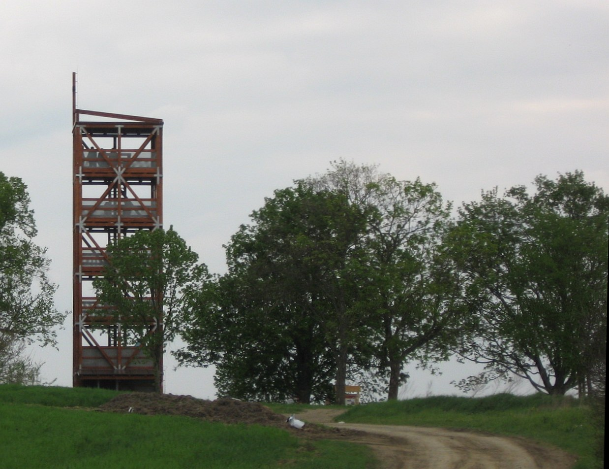 Observation tower "Šibeniční vrch"(Galgenhügel) by Horšovský Týn in Plzeň Region.